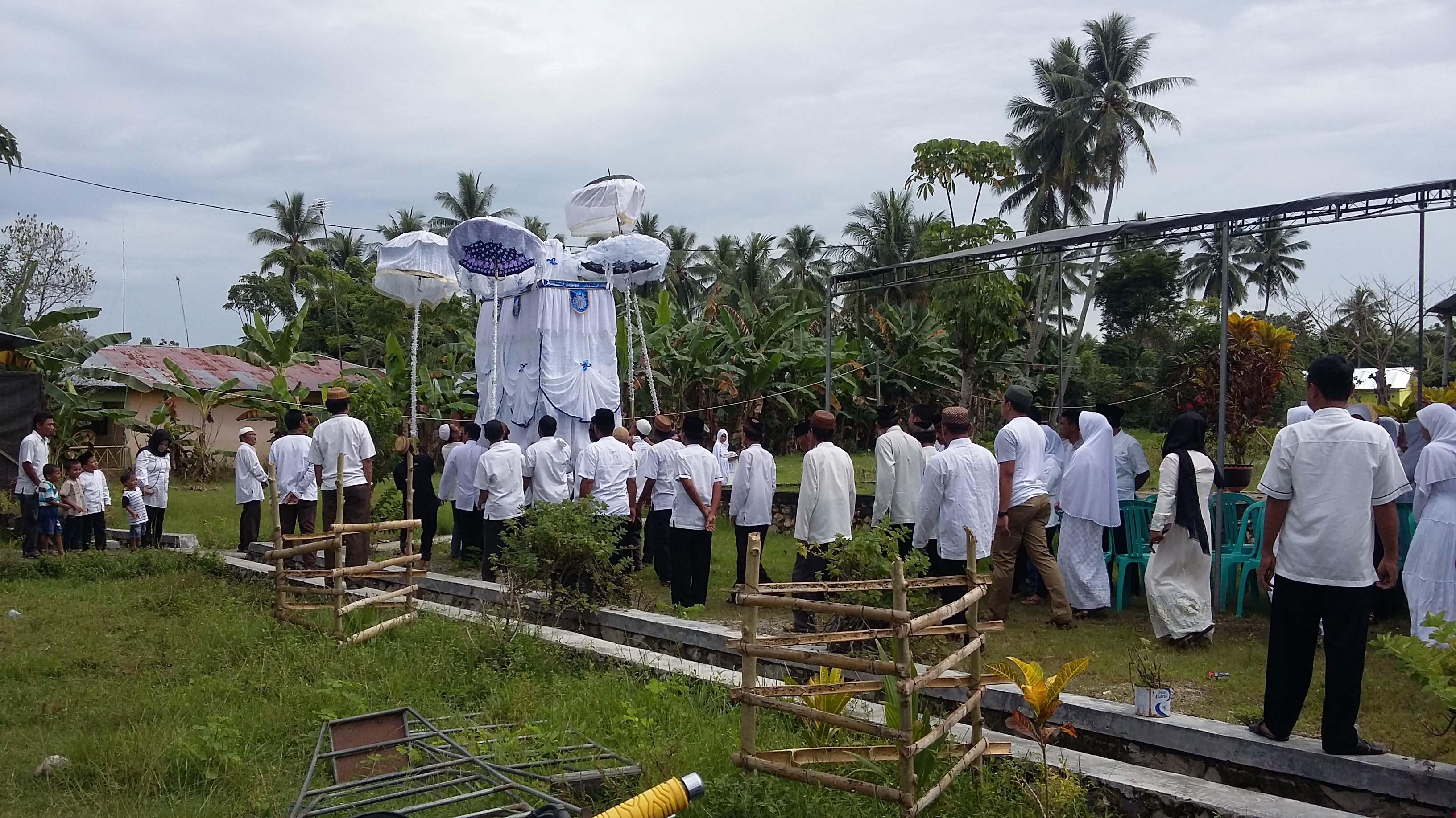 Delivering the body to the grave, the mourners walked behind the bearer of the coffin which was called "Huhulihe" in Gorontalo. Bahasa Hulontalo: Modepita milate ode kuburu, ta molobungo hitunuhe to ta hipotala huhulihe.